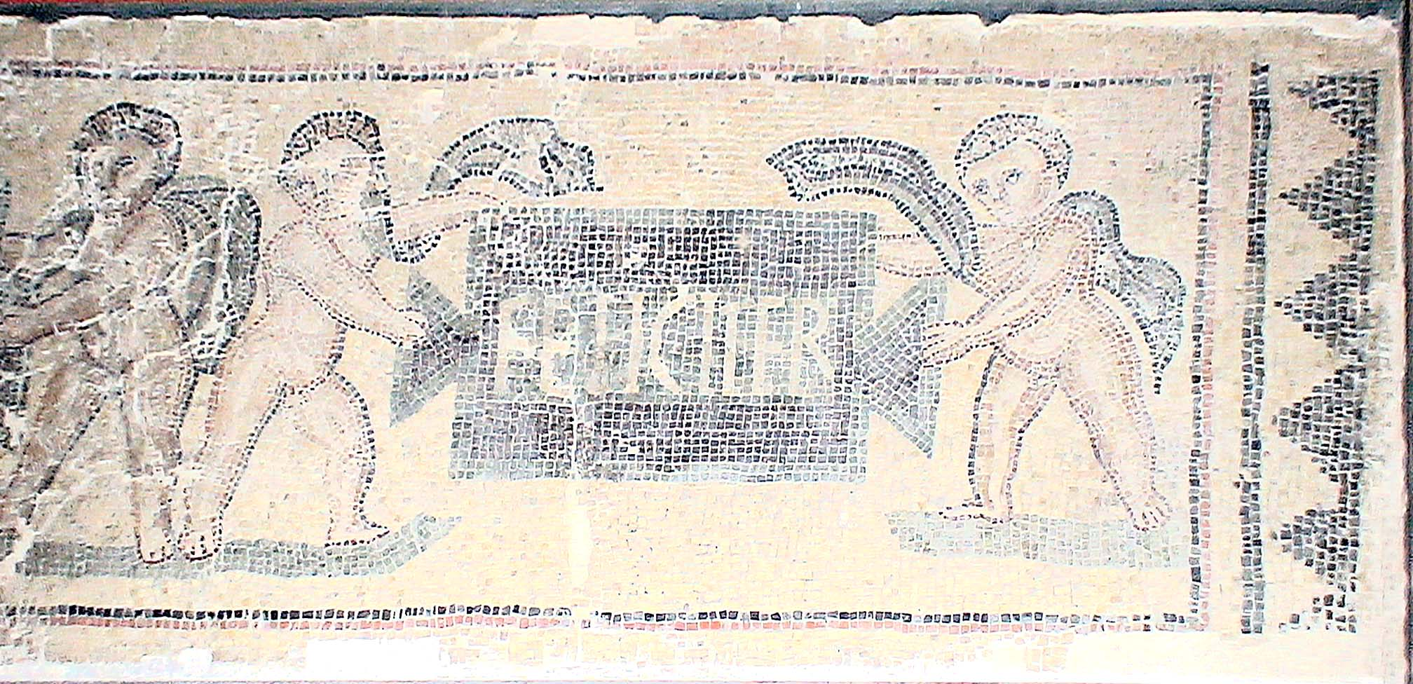 Putti displaying inscription "VTERE / FELICITER"= Enjoy life (Roman mosaic, 4th century AD) Castello Ursino, Catania, Sicily (photo: Mihailo Grbic).